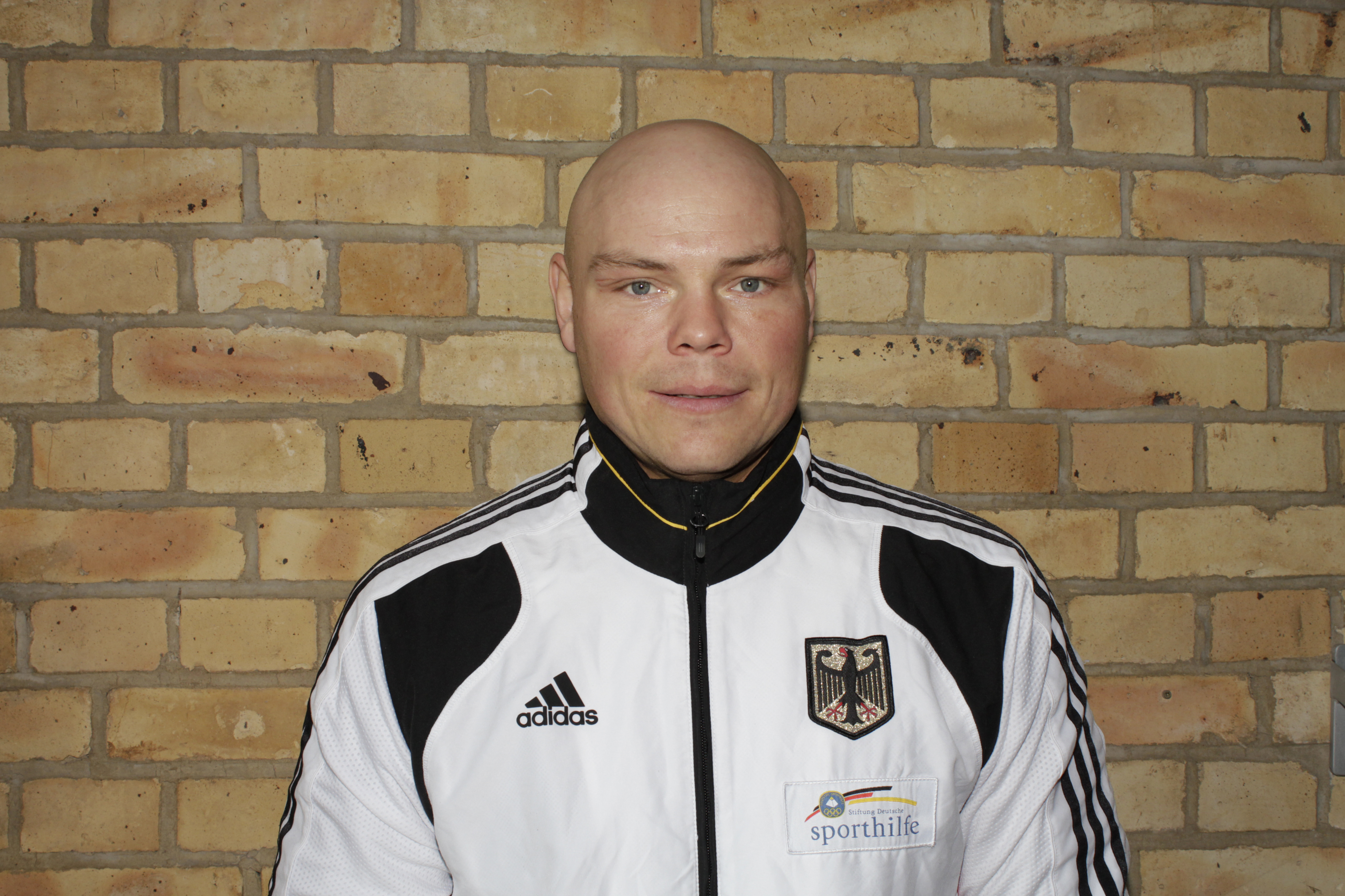 Alexander Powernow Chemistry Cup 2011 - National team of the German Boxing Association